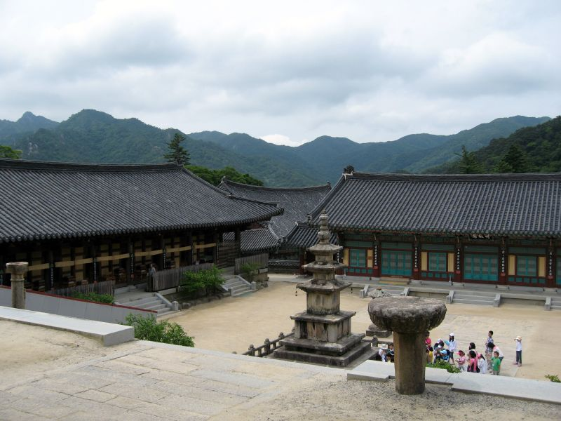 Haeinsa (해인사, Temple of Reflection on a Smooth Sea) is one of the foremost Chogye Buddhist temples in South Korea. It is most notable for being the home of the Tripitaka Koreana, the whole of the Buddhist Scriptures carved onto 81,258 wooden printing blocks, which it has housed since 1398.